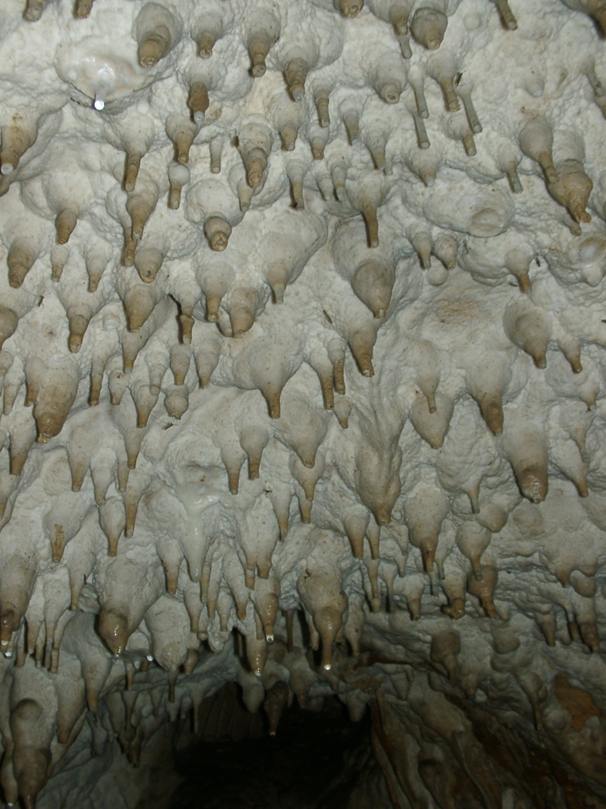 Dripstone in Pilis Cave.